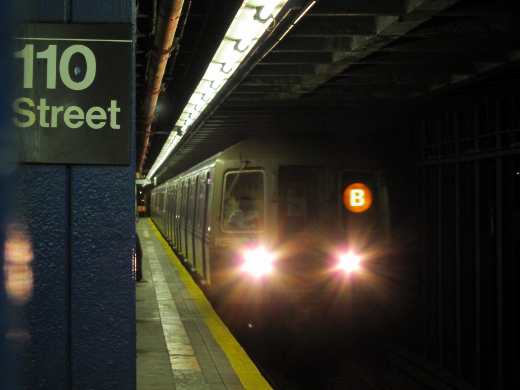 B-Train Arrives